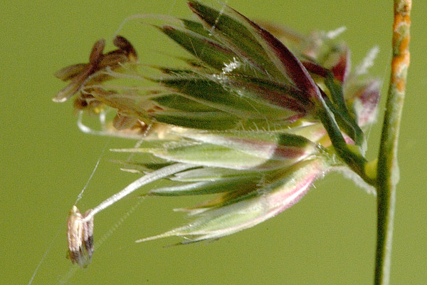 Picture taken in Commanster, Belgian High Ardennes . Species: Dactylis glomerata